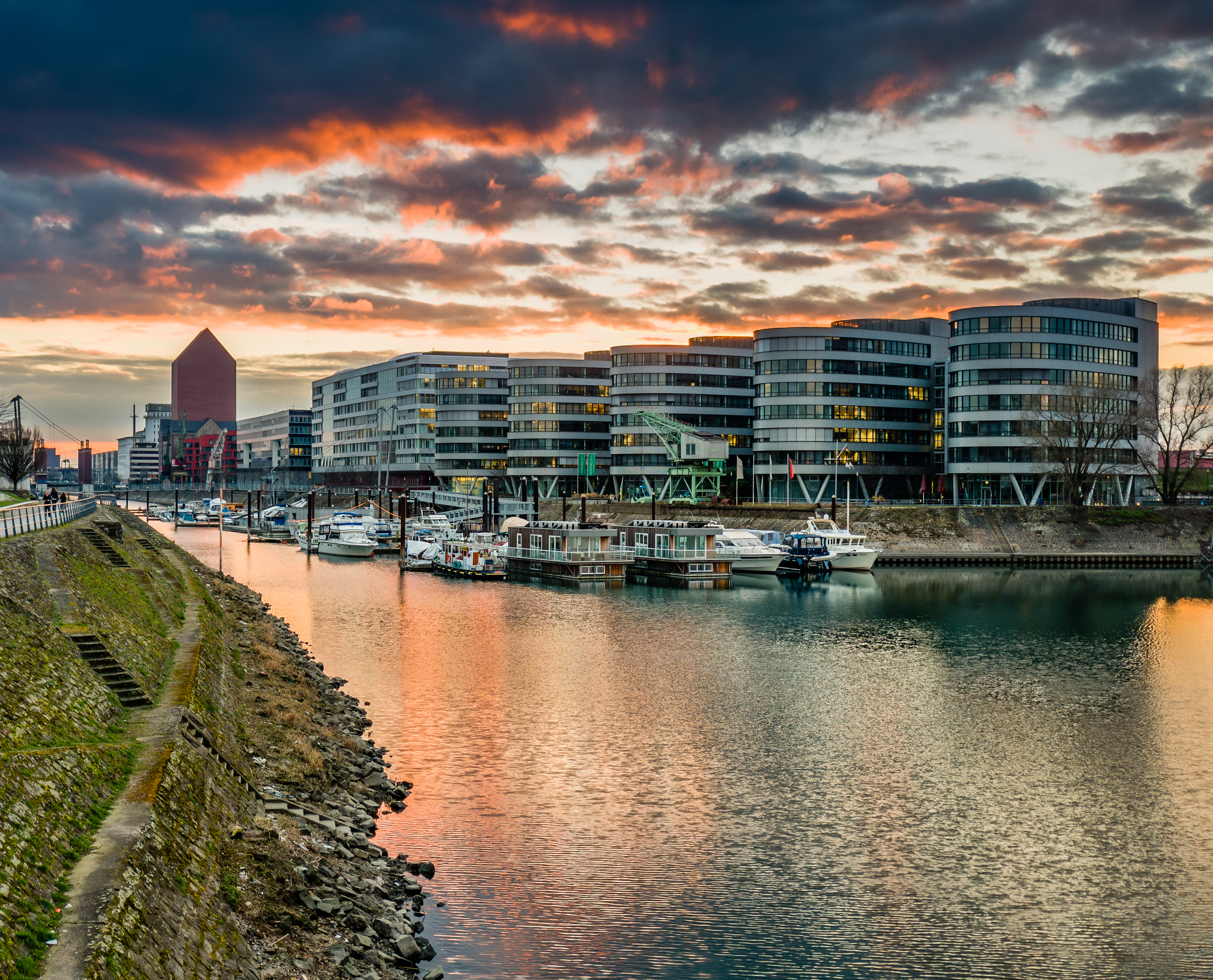 Sunset Duisburg Inner Harbour with office building "Five Boats" and marina